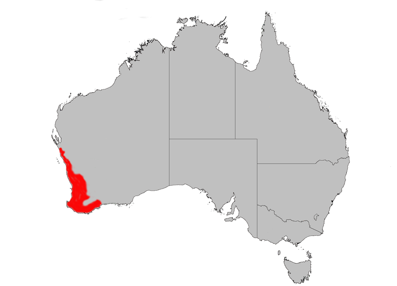 Map of the Australian continent showing the range of Banksia attenuata, note: for B.attenuata that natural distribution is subject to soil conditions, and actual distribution has been further affected by land clearing